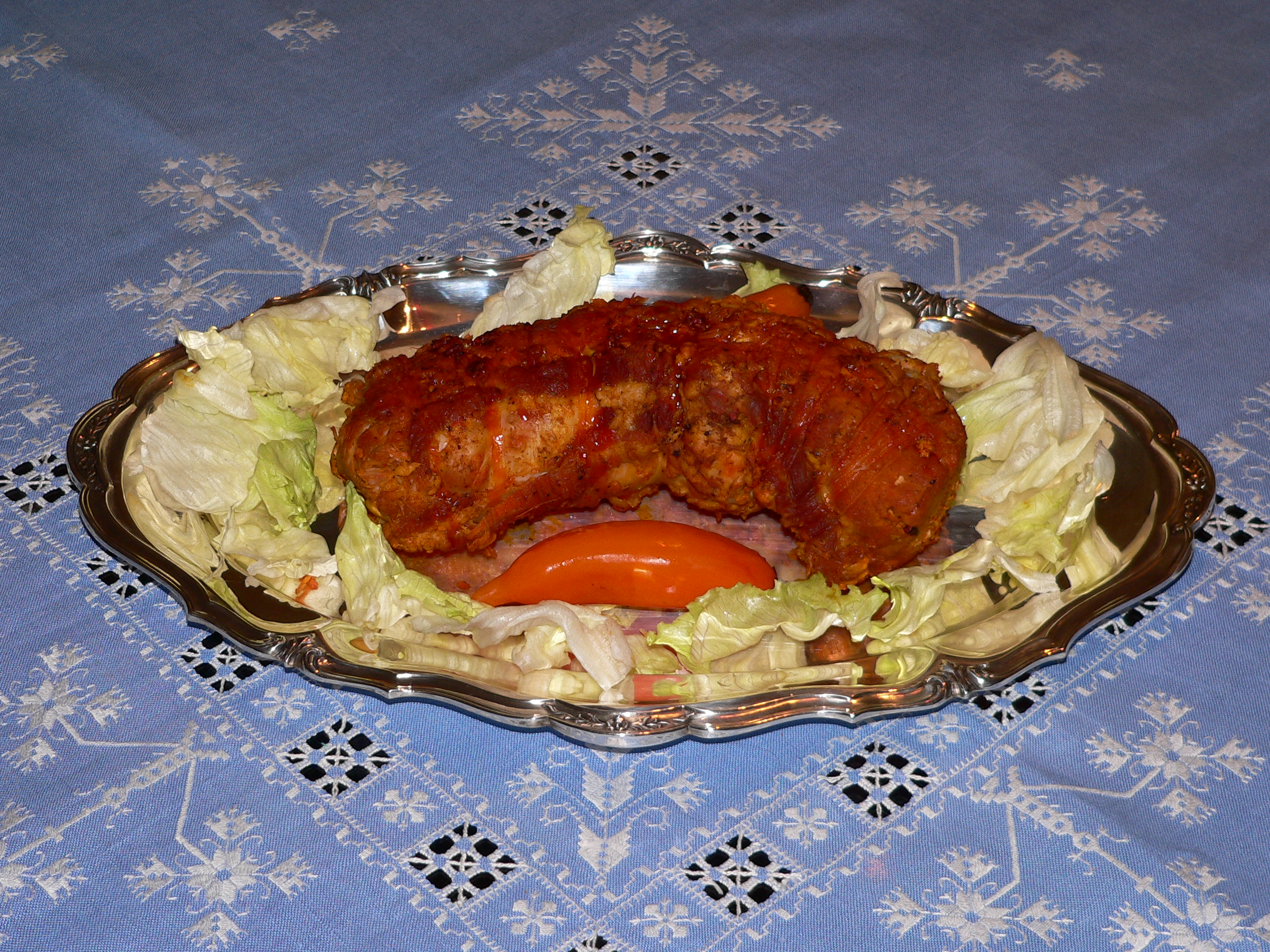 Description: Peruvian cuisine Name: Jamón del país Country : Peru Photographer: © Manuel González Olaechea y Franco Shot date : November, 11th , 2007